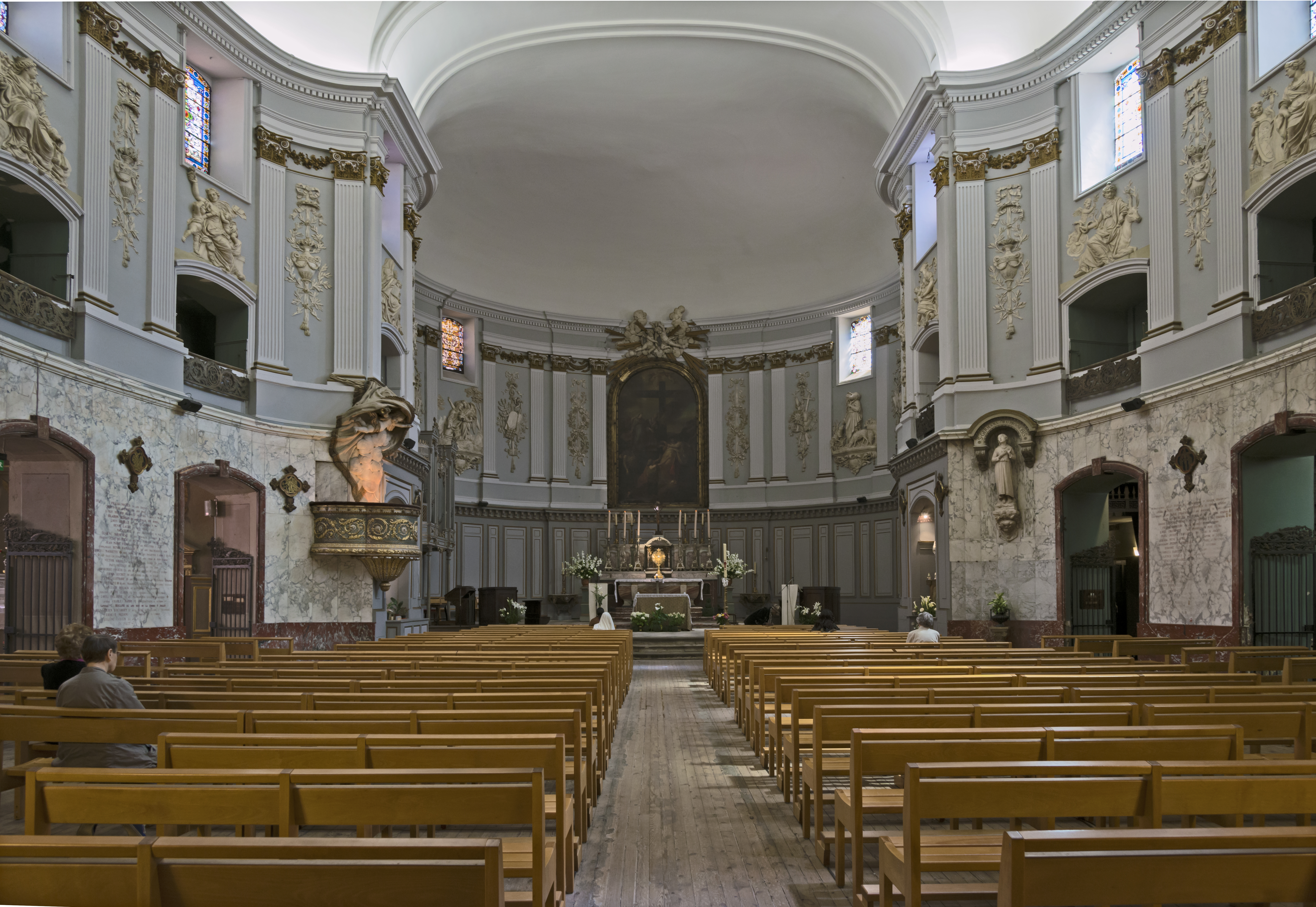 Church Saint-Jérôme from Toulouse, The nave and choir.